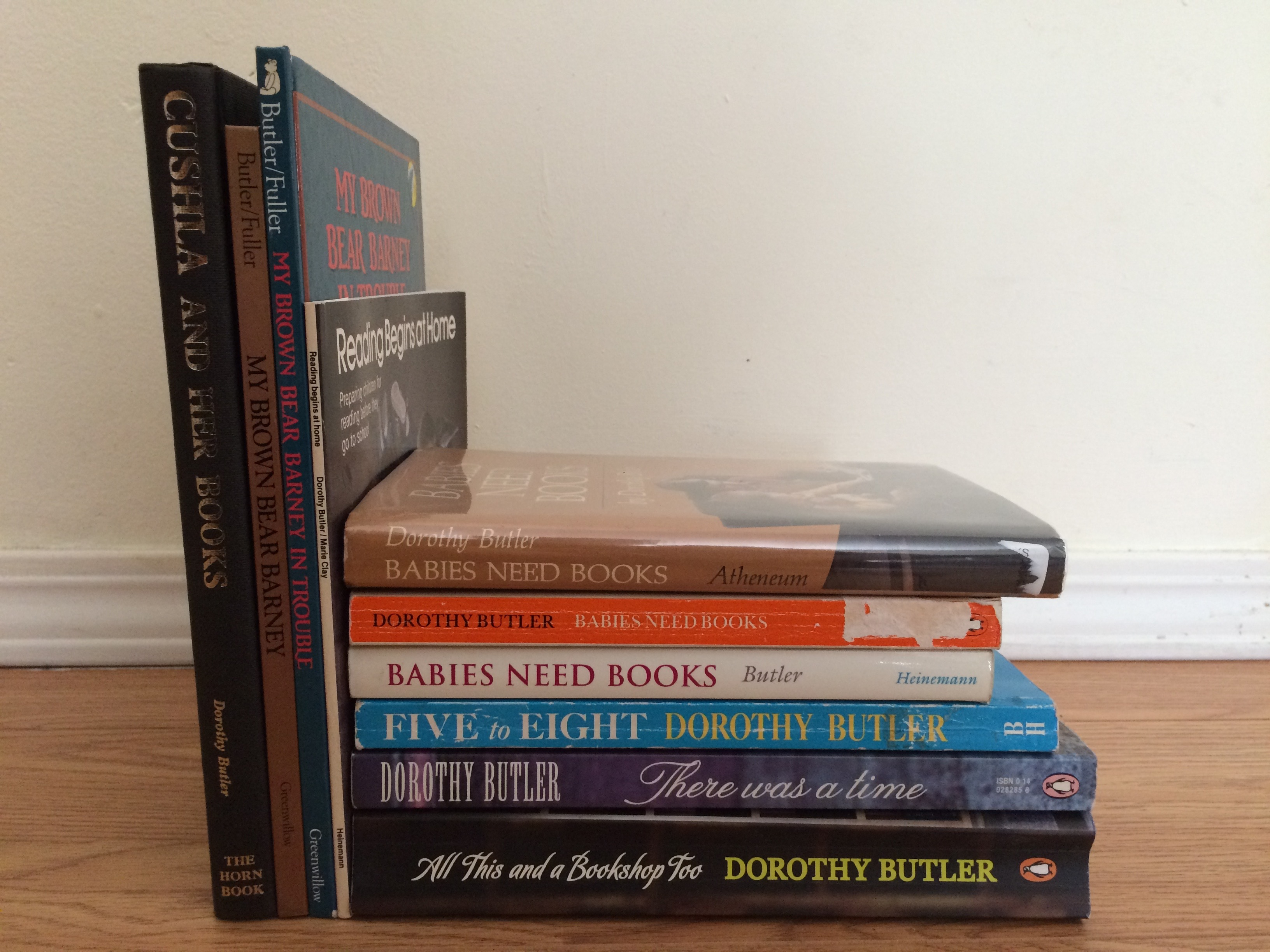 Autobiographies, multiple editions of Babies Need Books, My Brown Bear Barney, Cushla and Her Books